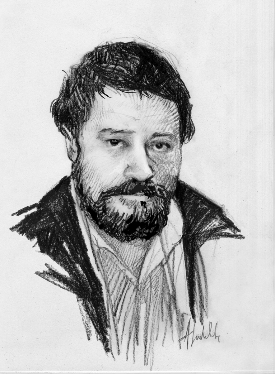 Desen in creion de Aurelian Scorobete